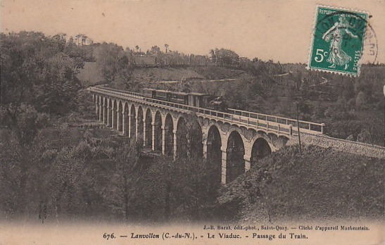 J.B. Barat edition, Saint-Quay, #676 "Lanvollon (Brittany) - The viaduct - Passing train"